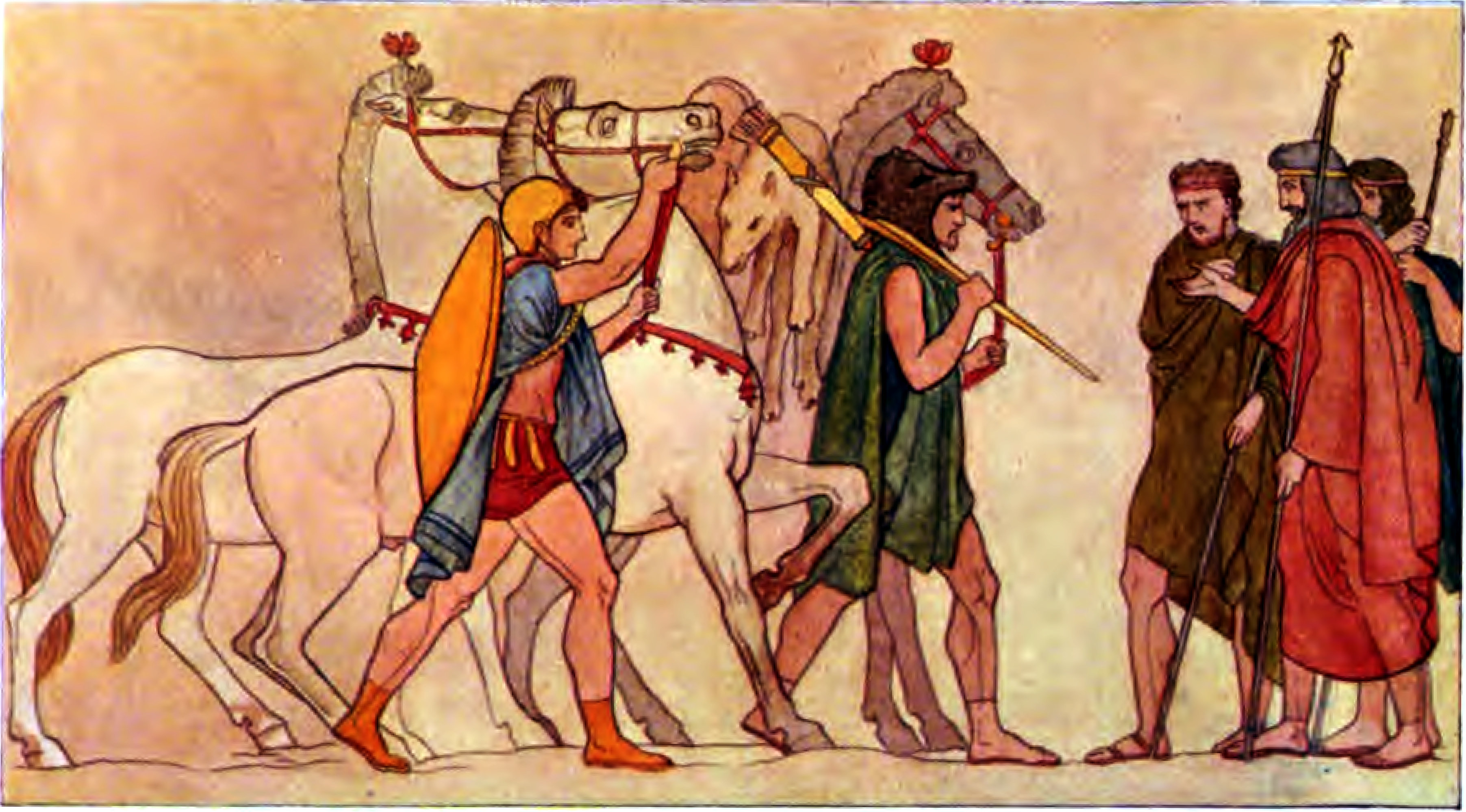 Diomed and Ulysses returning with the spoils of Rhesus. from The story of the Iliad, 1907